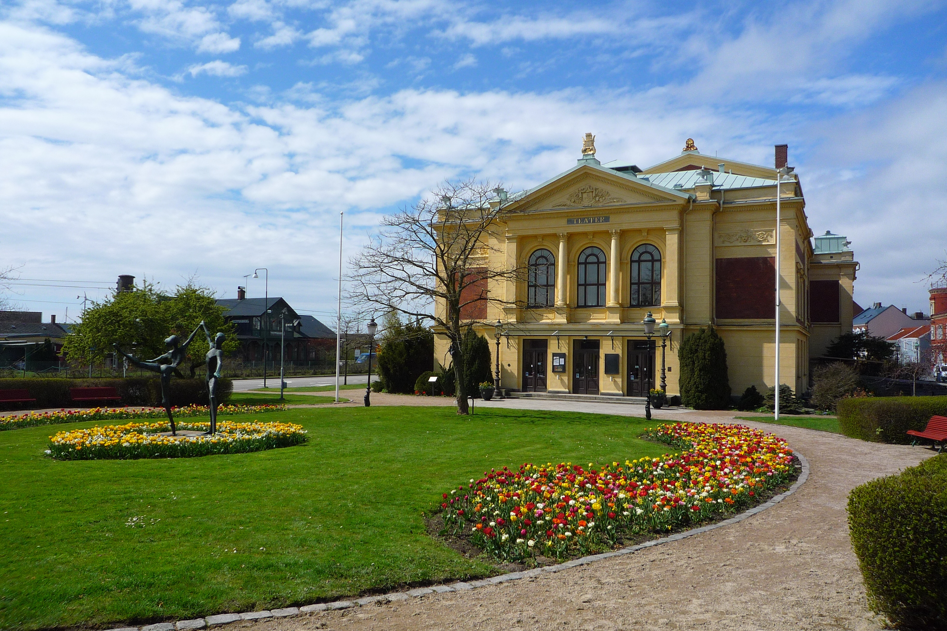 The theatre in Ystad